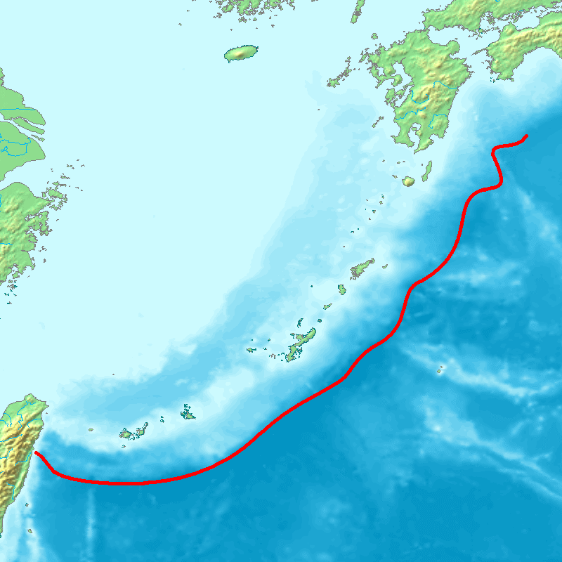 Map of the Okiniwa Trench(a trench off Ryukyu Islands).